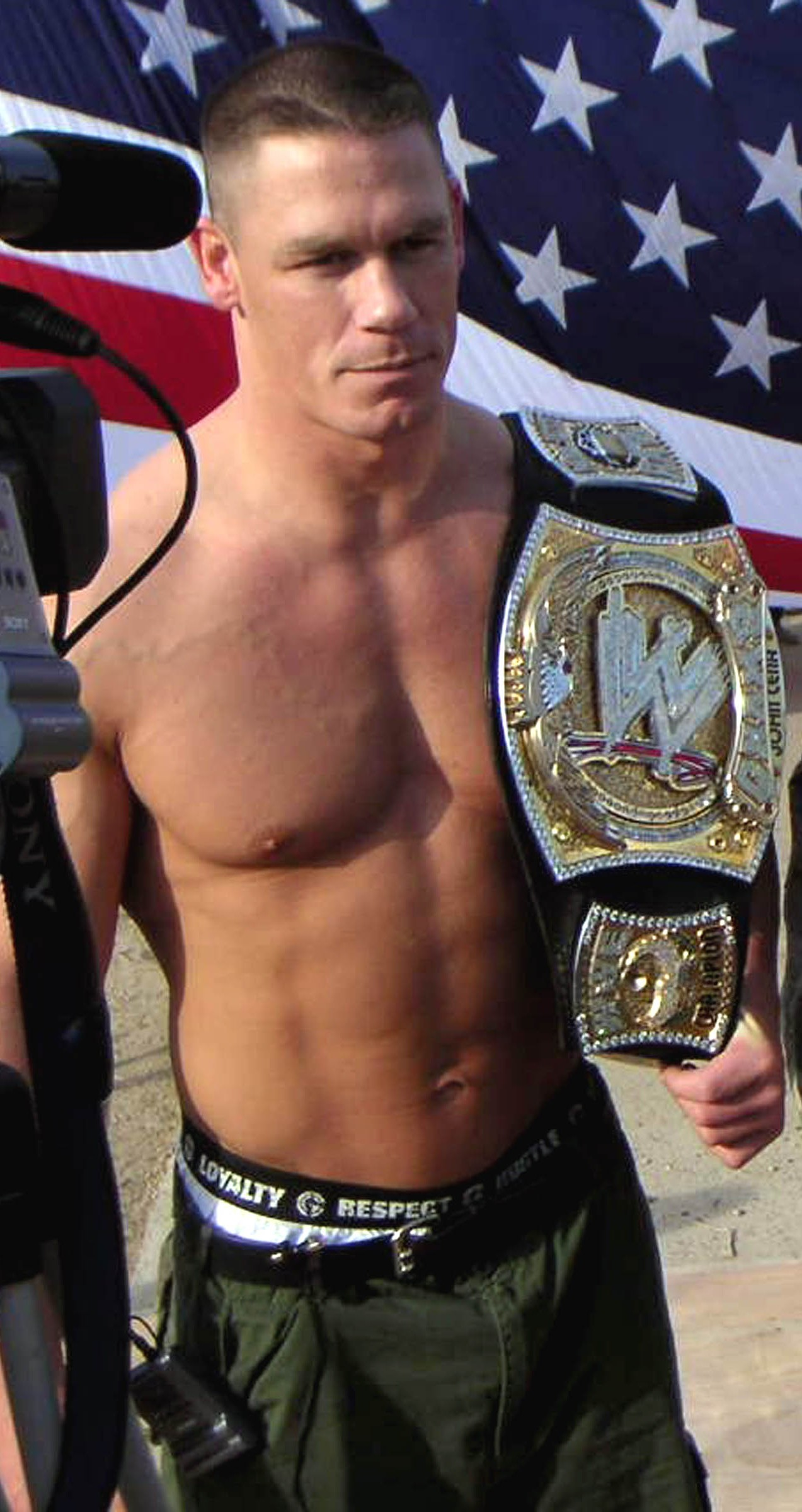 WWE Champion John Cena presents the 2.6 millionth card received by ASY group A Million Thanks to Army 1st Lt. Shannon Terry as part of the WWE’s “Tribute to the Troops” tour of Iraq.